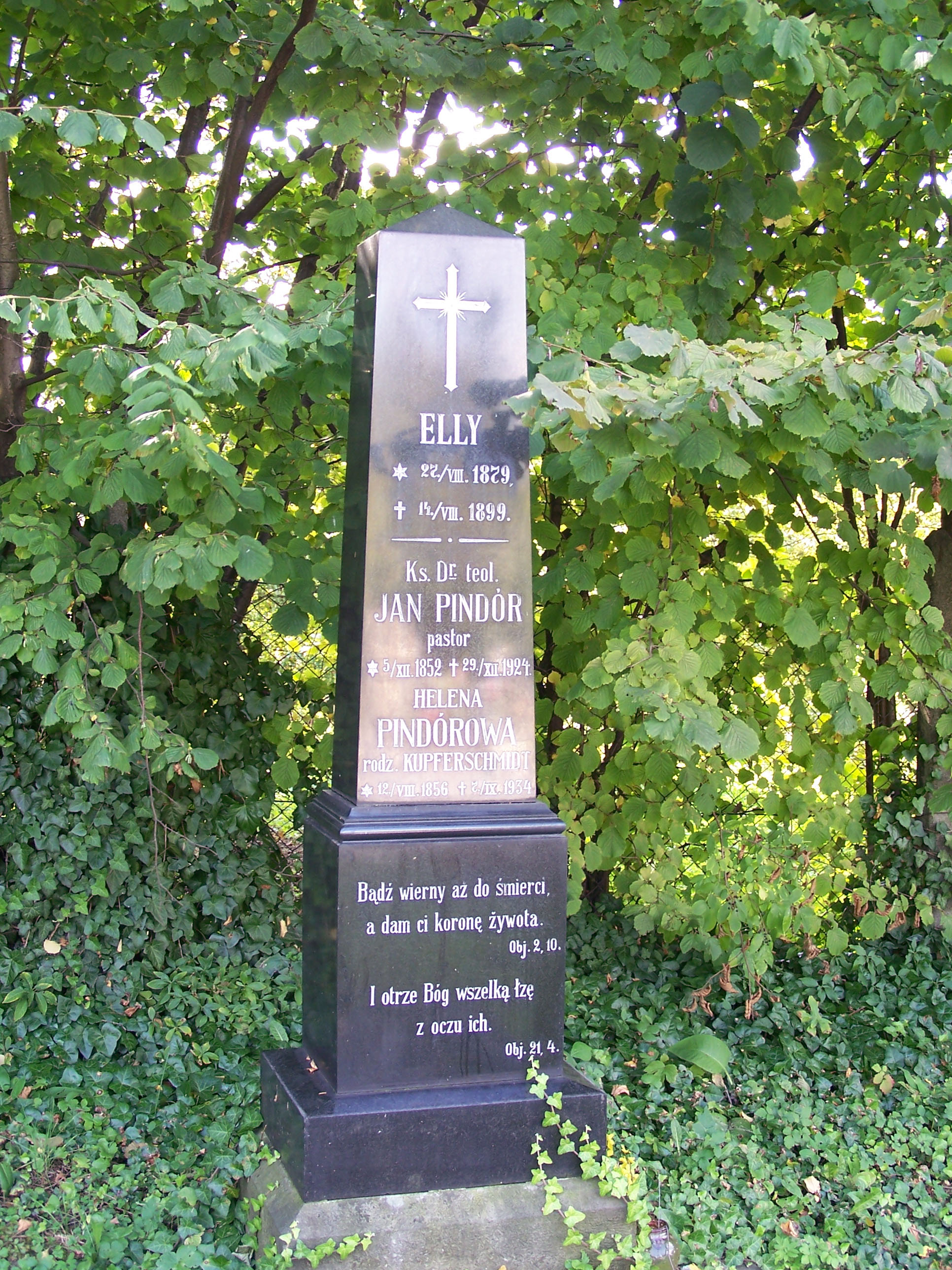 Grave of Jan Pindór, pastor and theologian at the Protestant cemetery in Cieszyn, Poland